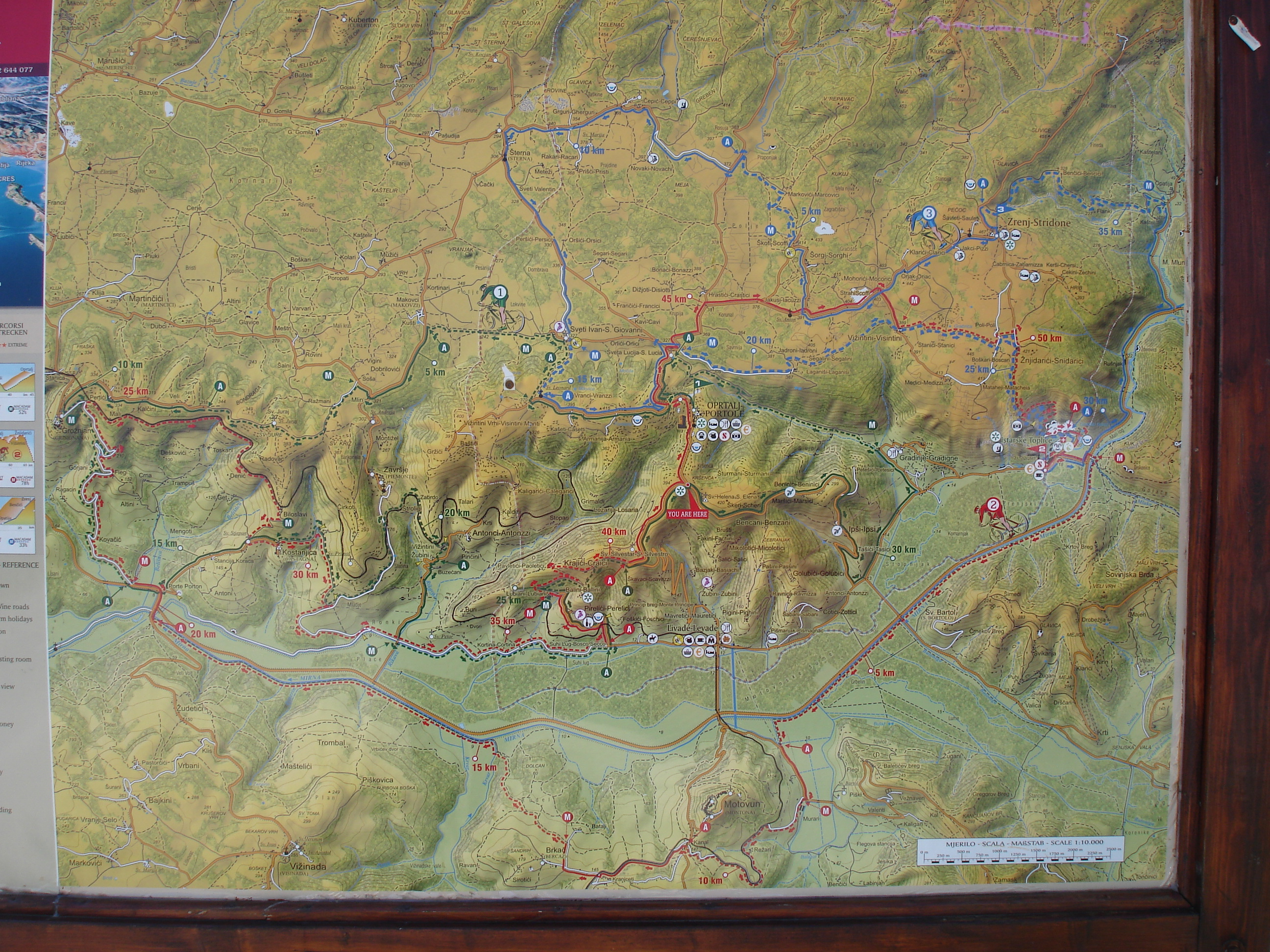 Tourist informations board on scenic overlook near Oprtalj, Istria, Croatia, on road Ž5007